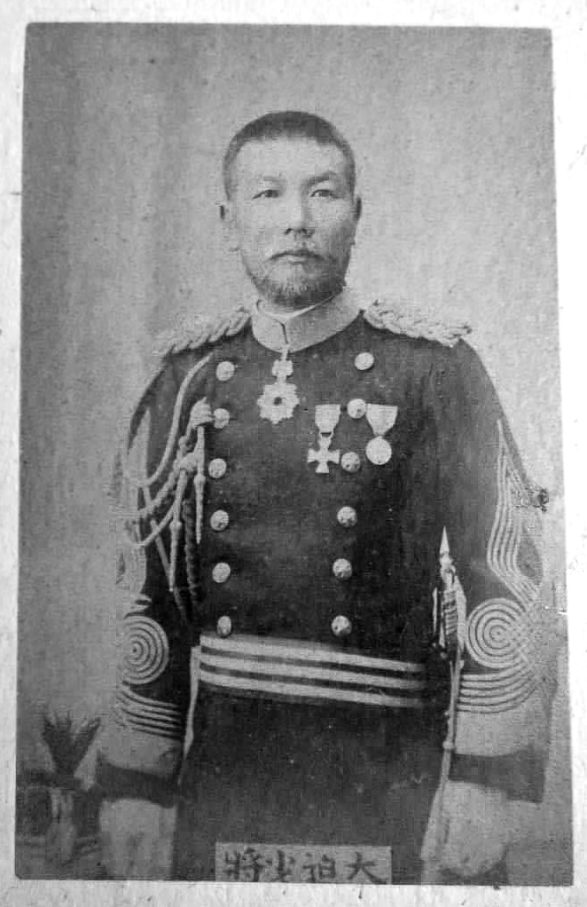 Major-General Osako Naotoshi